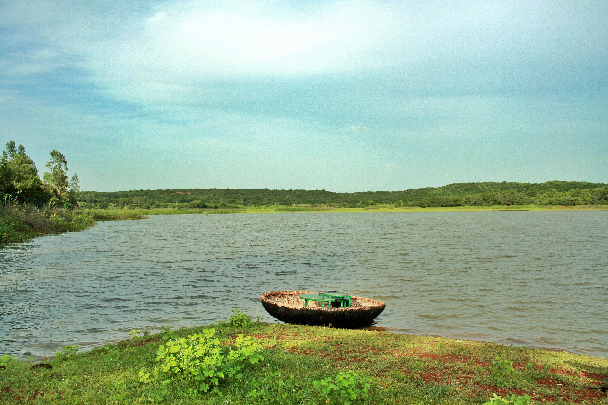 blackbuck resort lake bidar